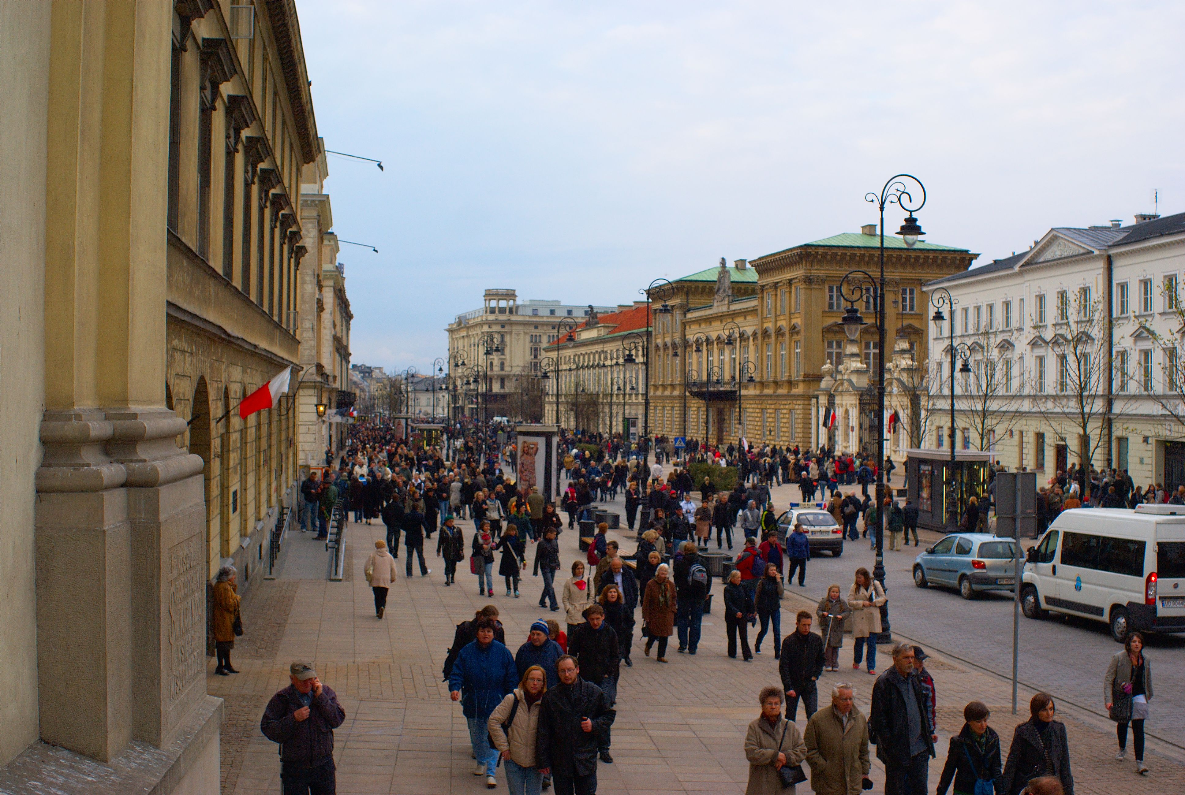 Warsaw after presidents plane crash. Krakowskie przedmieście st.